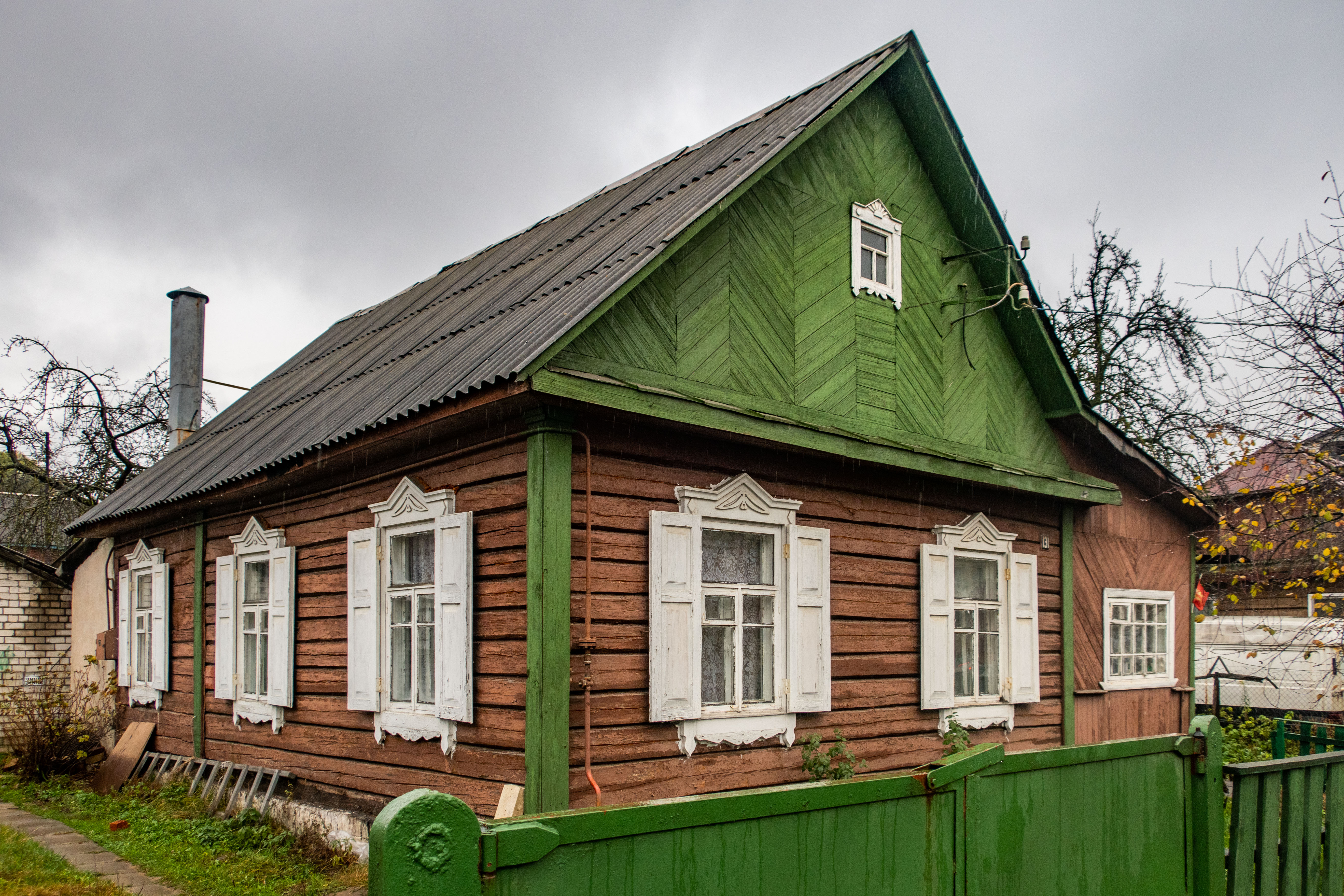 Dražnia microdistrict. Soltysa street. Minsk, Belarus